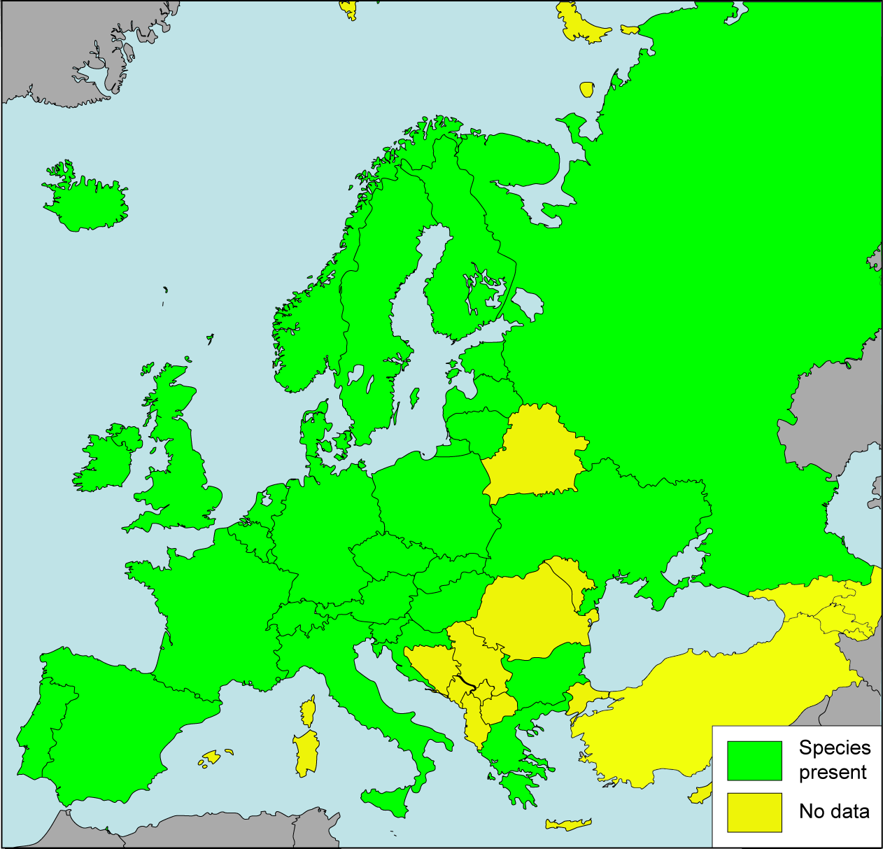 Pisidium casertanum, freshwater bivalve species: presence in European countries based upon data from: Pisidium casertanum